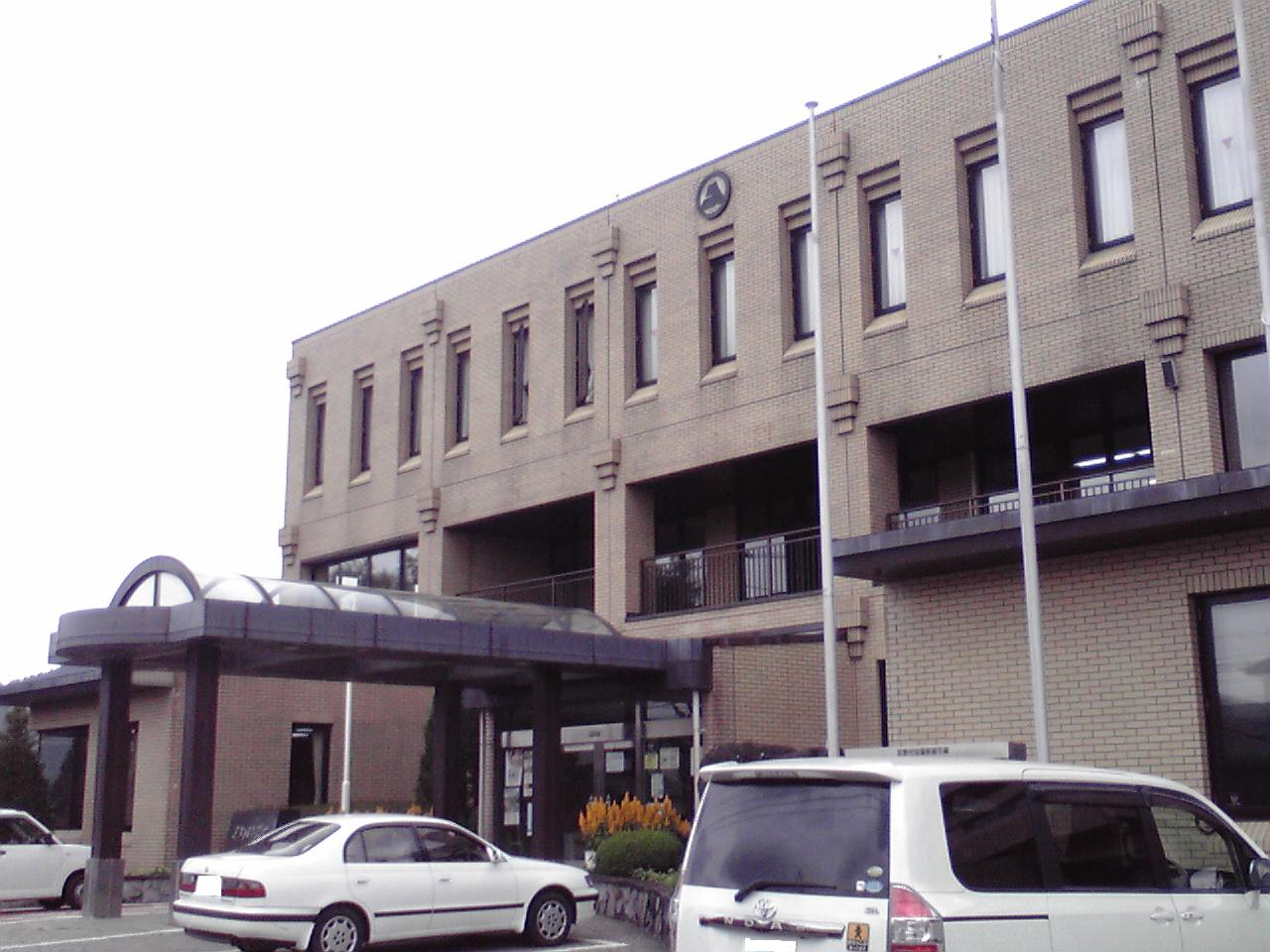 This is the Oshino village office building (Yamanashi, Japan).